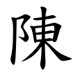 Author: David Chin User:Dwchin TAI